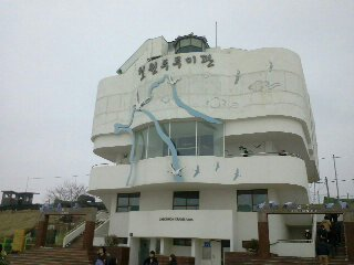 cheolwon Red-crowned Crane museum